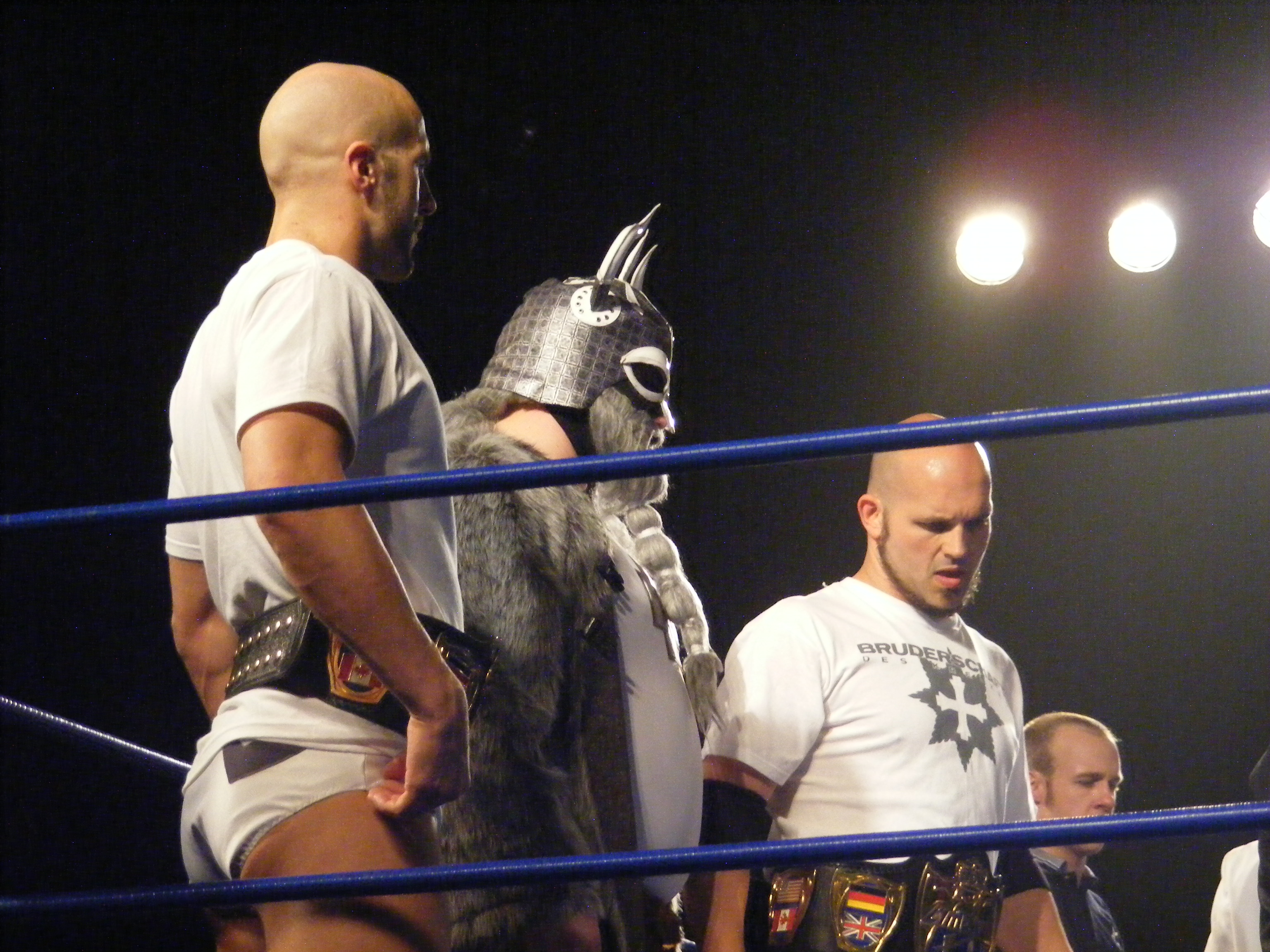 Professional wrestling stable Bruderschaft des Kreuzes (Claudio Castanoli [One half of the Chikara Campeonatos de Parejas; left], Tursas, centre, and Ares [One half of the Chikara Campeonatos de Parejas; right]) at Chikara's King of Trios Night 1 show on April 23, 2010 in Philadelphia.